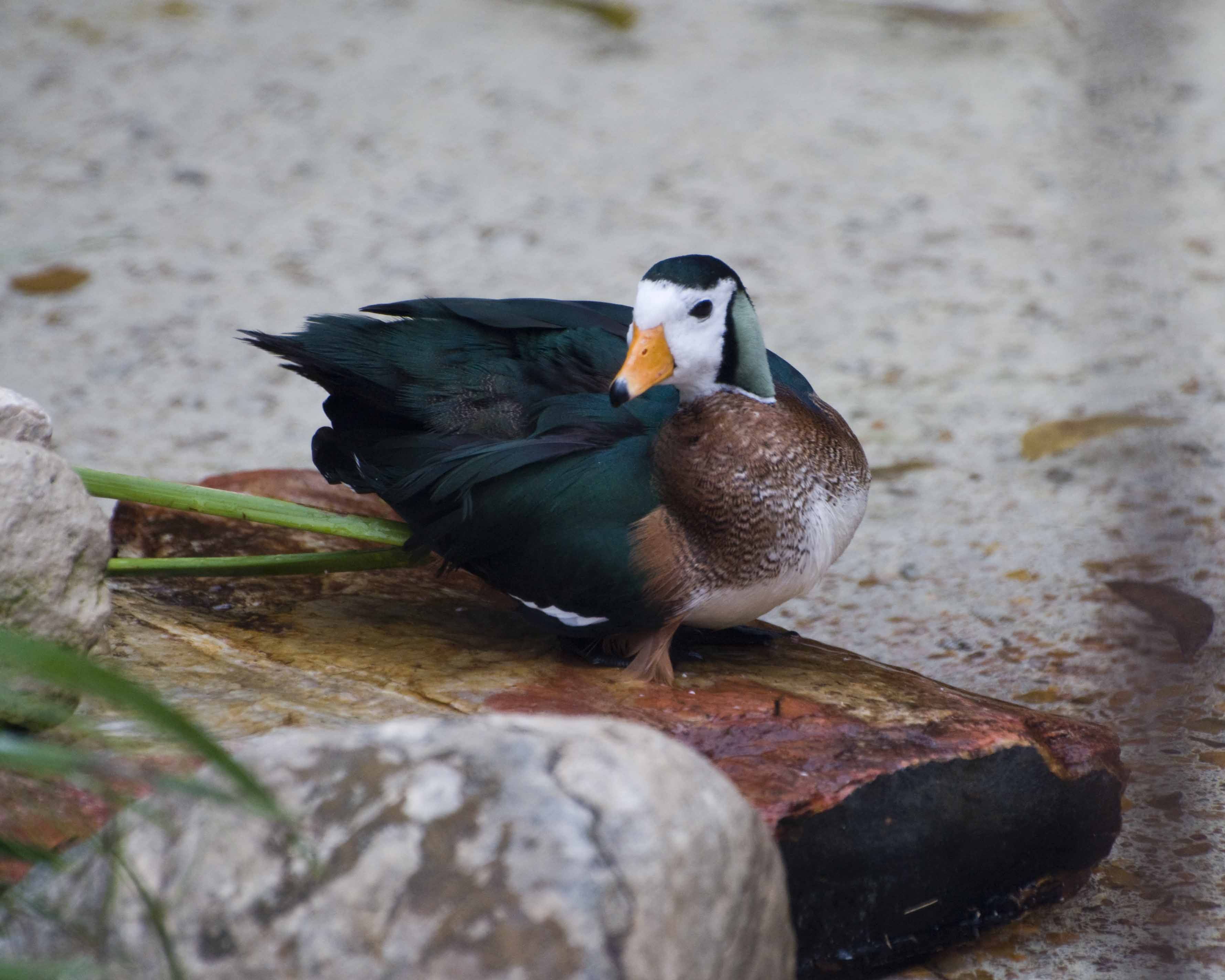 An African Pygmy Goose at Houston Zoo, USA.